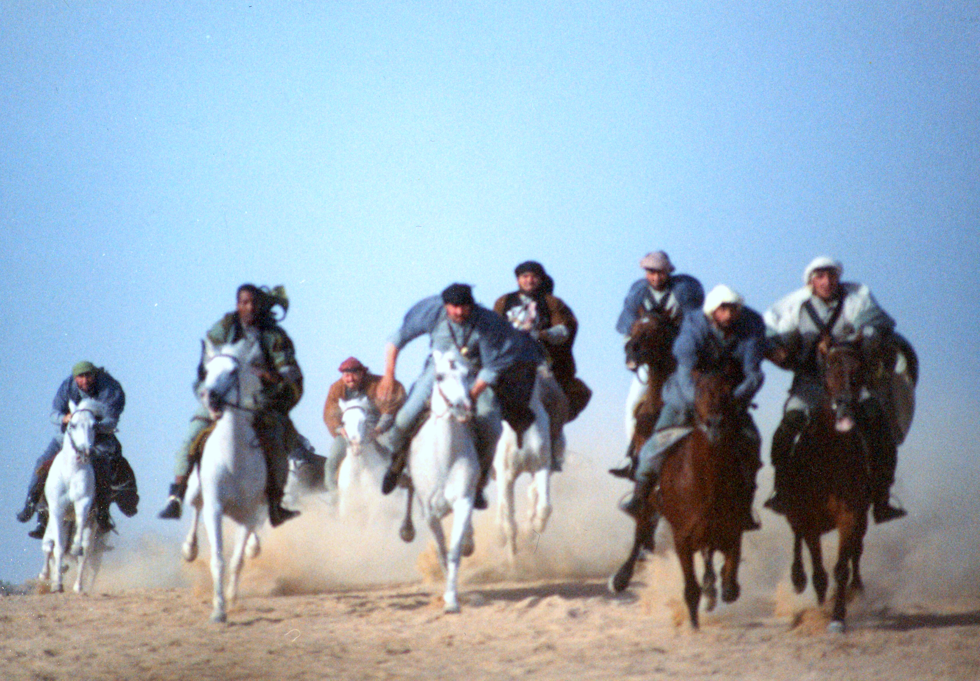 Bedouin Raid in the Drama series - The Last Cavalier on Location in Dubai